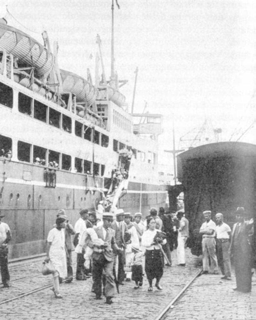 Japanese Immigrants disembarking in Port of Santos, in Brazil, year 1937 or 1938. This was one of the last disembarkments of a large group of Japanese immigrants in Brazil. Photo in the estate of Museu Histórico da Imigração Japonesa no Brasil. Published in História da Vida Privada no Brasil, volume 3 (organized by Nicolau Sevcenko), pp. 238, Companhia das Letras, São Paulo/SP, 1998, Collection directed by Fernando A. Novais